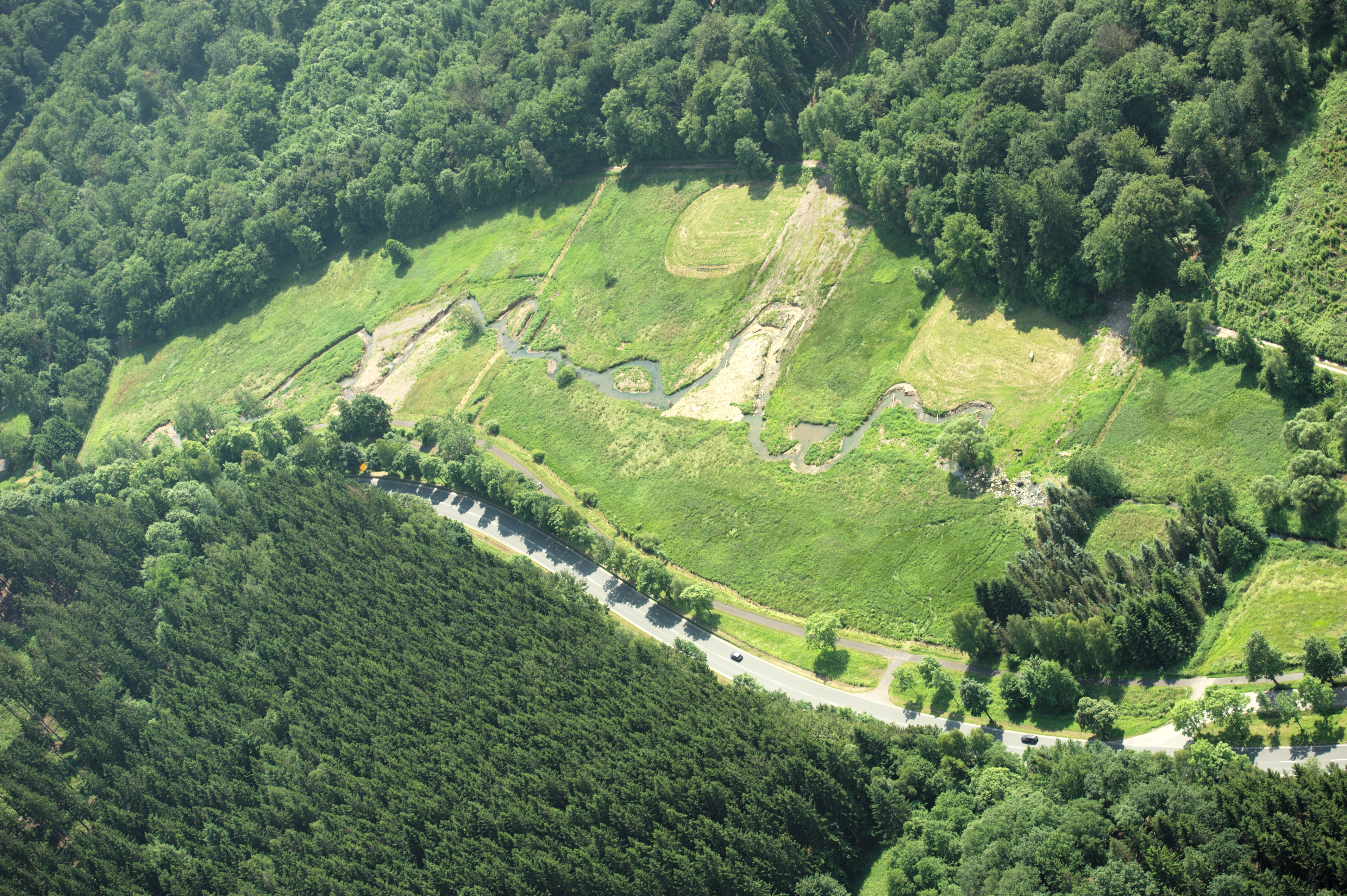 Fotoflug Sauerland-Ost - renaturierte Möhne unterhalb des ehemaligen Scharfenberger Bahnhofs The making of this document was supported by the Community-Budget of Wikimedia Germany.